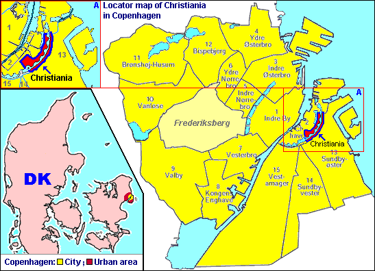 Locator map of Christiania in Copenhagen.